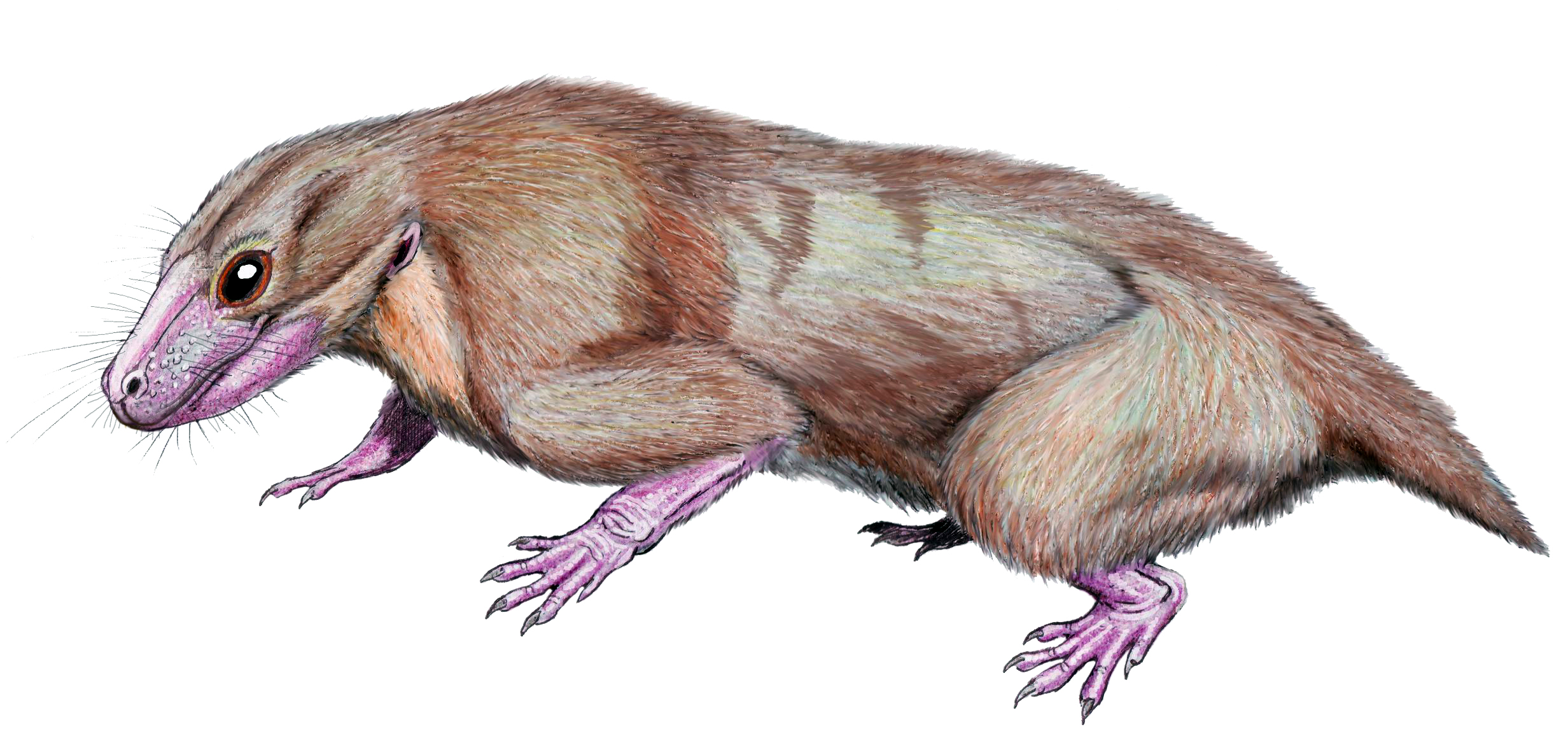 Ericiolacerta prima from Early Triassic of South Africa